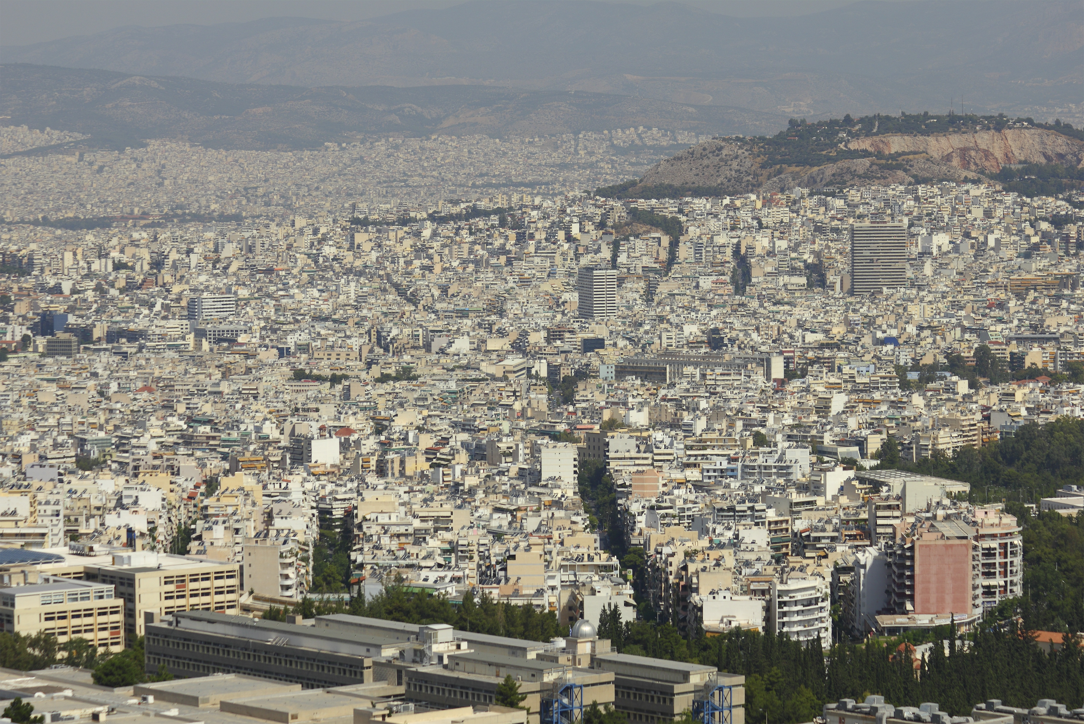 View from Kalogeros Hill to the suburbs of Athens (Attica, Greece)